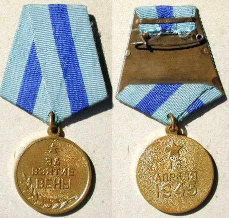 Soviet Medal for capturing Viena (Медаль "За взятие Вены")